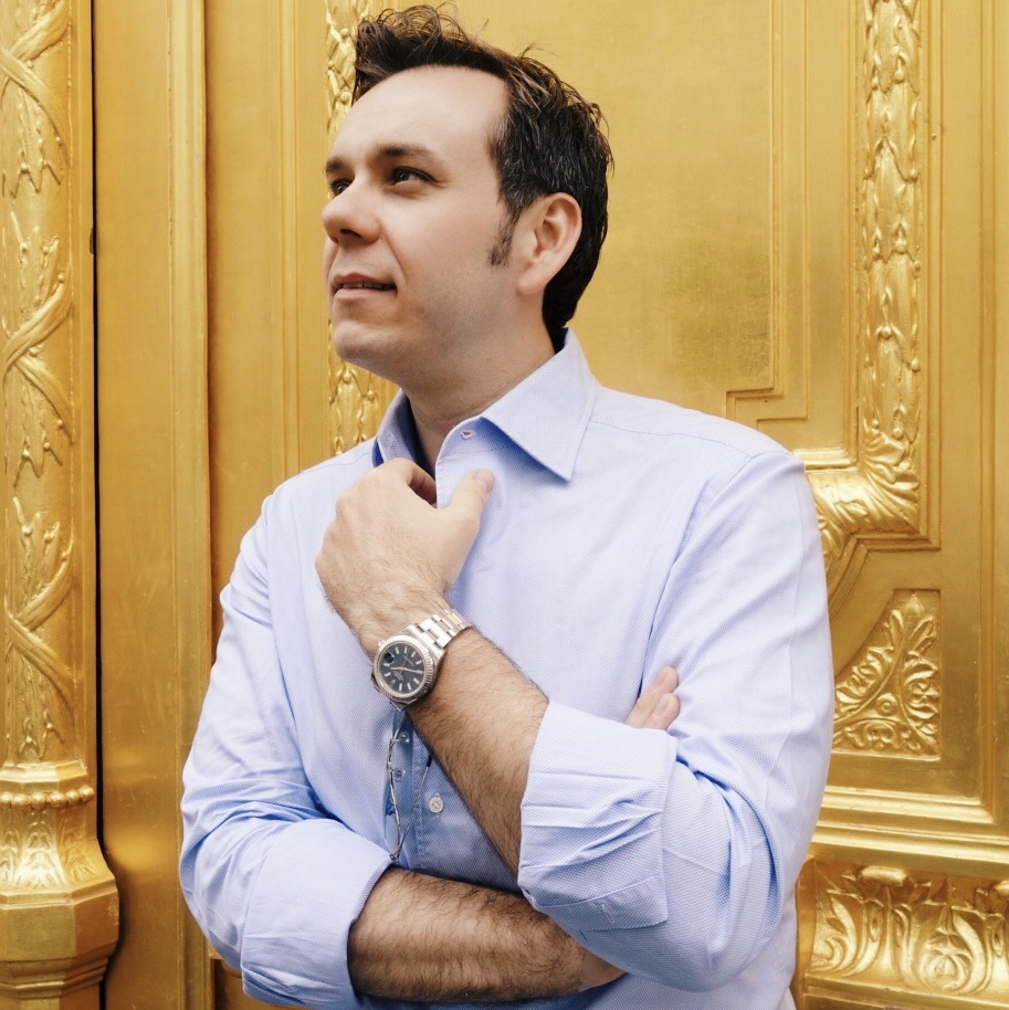 Benjamin Bernheim in Paris